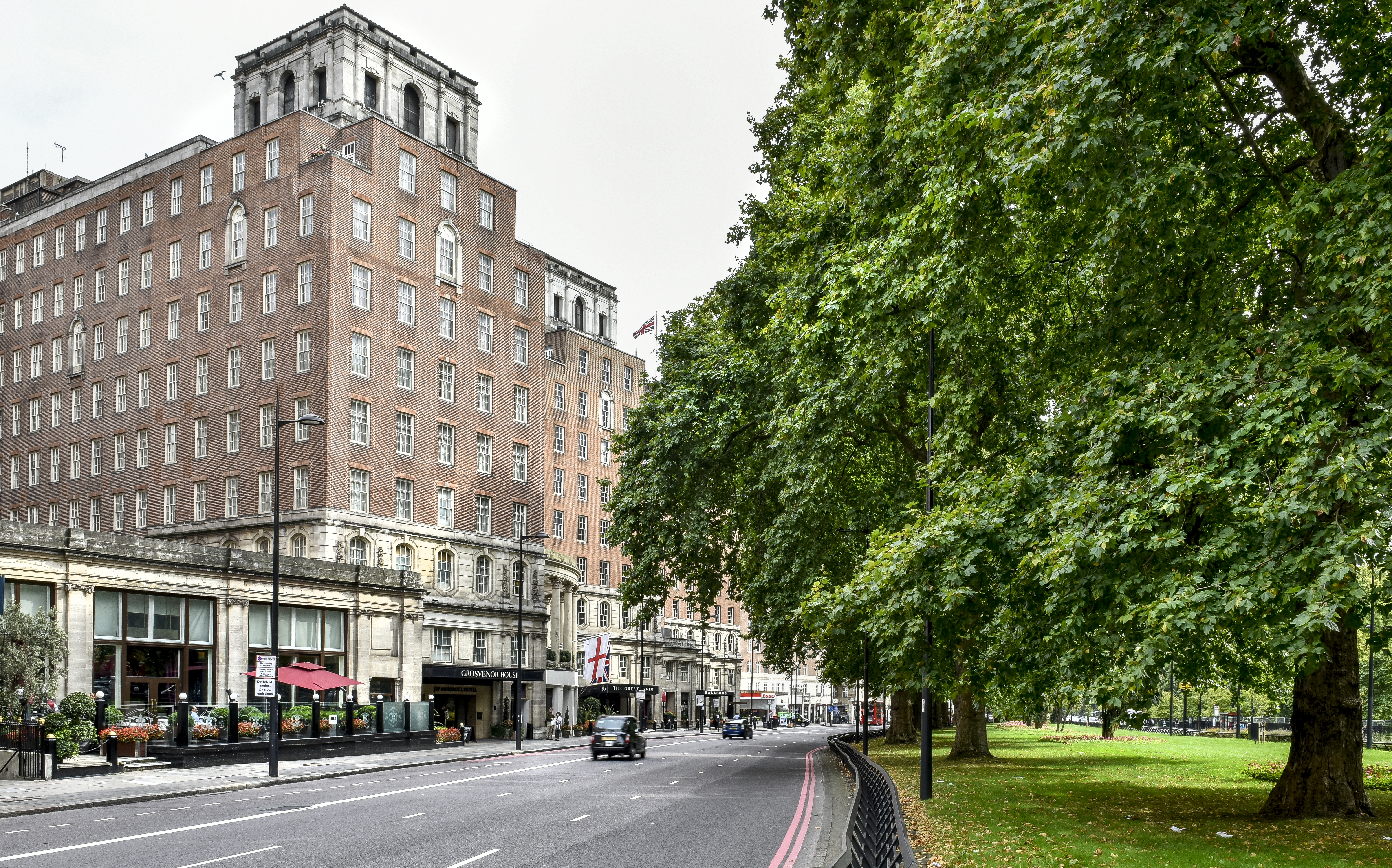 Park view